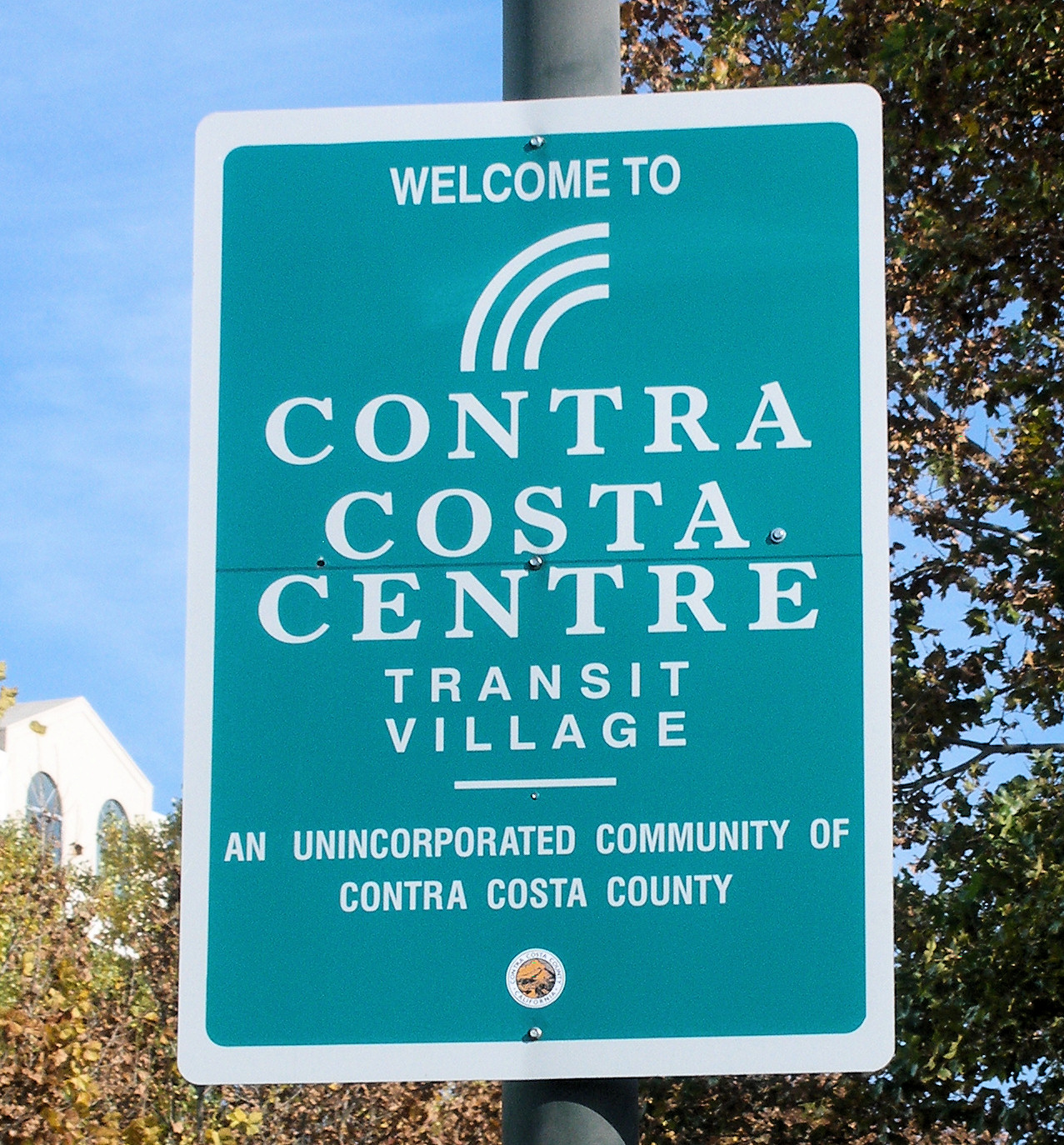 A sign for the unincorporated area of Contra Costa Centre Transit Village in Contra Costa County. The transit village consists of several high-density apartment complexes, office buildings, and hotels centered on the Pleasant Hill station of Bay Area Rapid Transit. The transit village sits next to Walnut Creek, with which it shares a post office, so mailing addresses in this area are written with "Walnut Creek" where a city should go, even though this area is actually beyond the city limits of Walnut Creek.